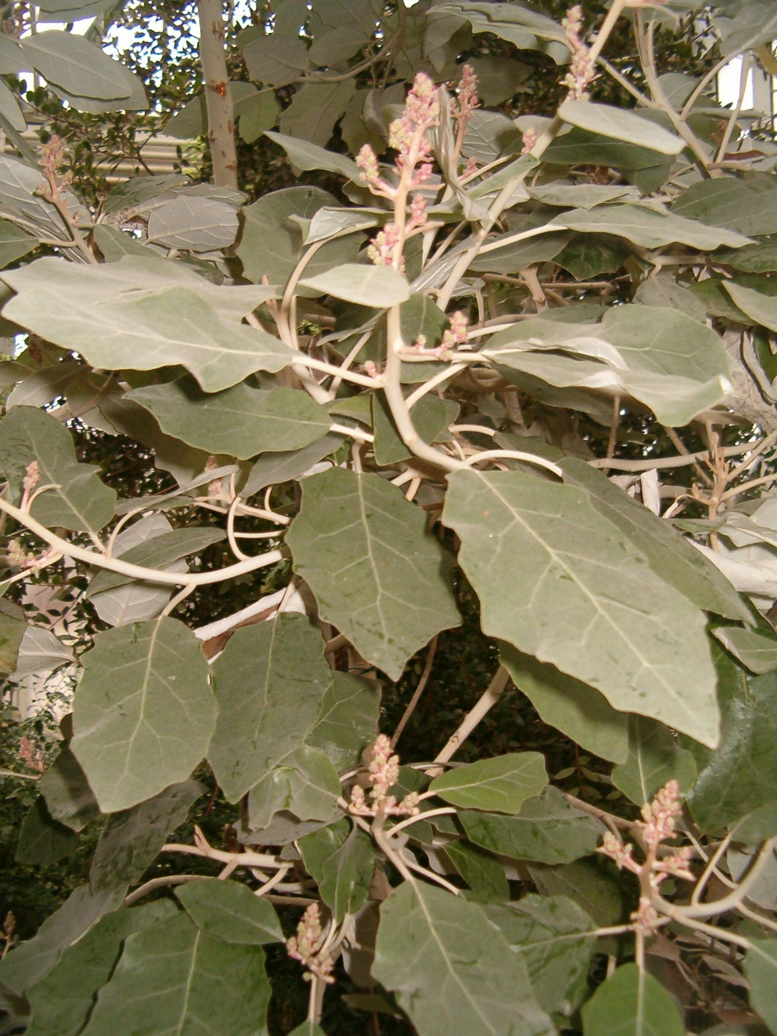 Location: Botanical Gardens Berlin Dahlem